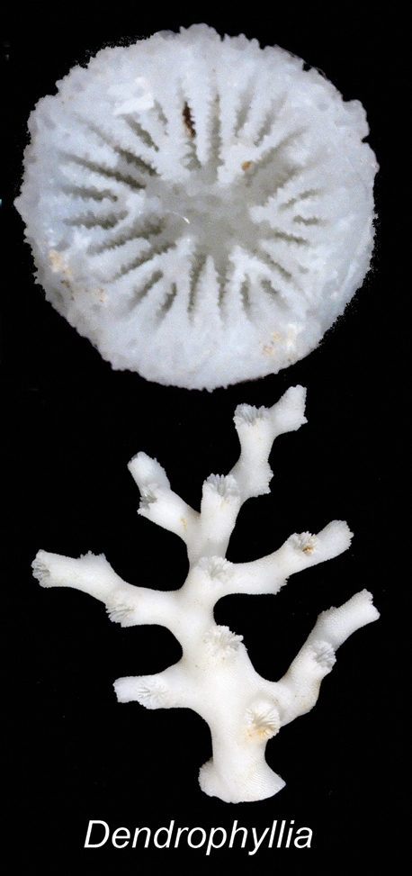 Cut-outs from original files: Recent_azooxanthellate_Scleractinia_(Cnidaria,_Anthozoa)_-_ZooKeys-227-001-g001 - 023